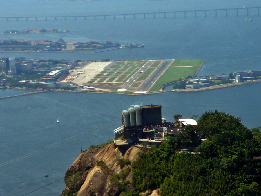 Aerial view of Santos Dumont Airport, with the Morro da Urca in front and the Rio-Niterói Bridge in the background. Guanabara Bay, Rio de Janeiro, Brazil